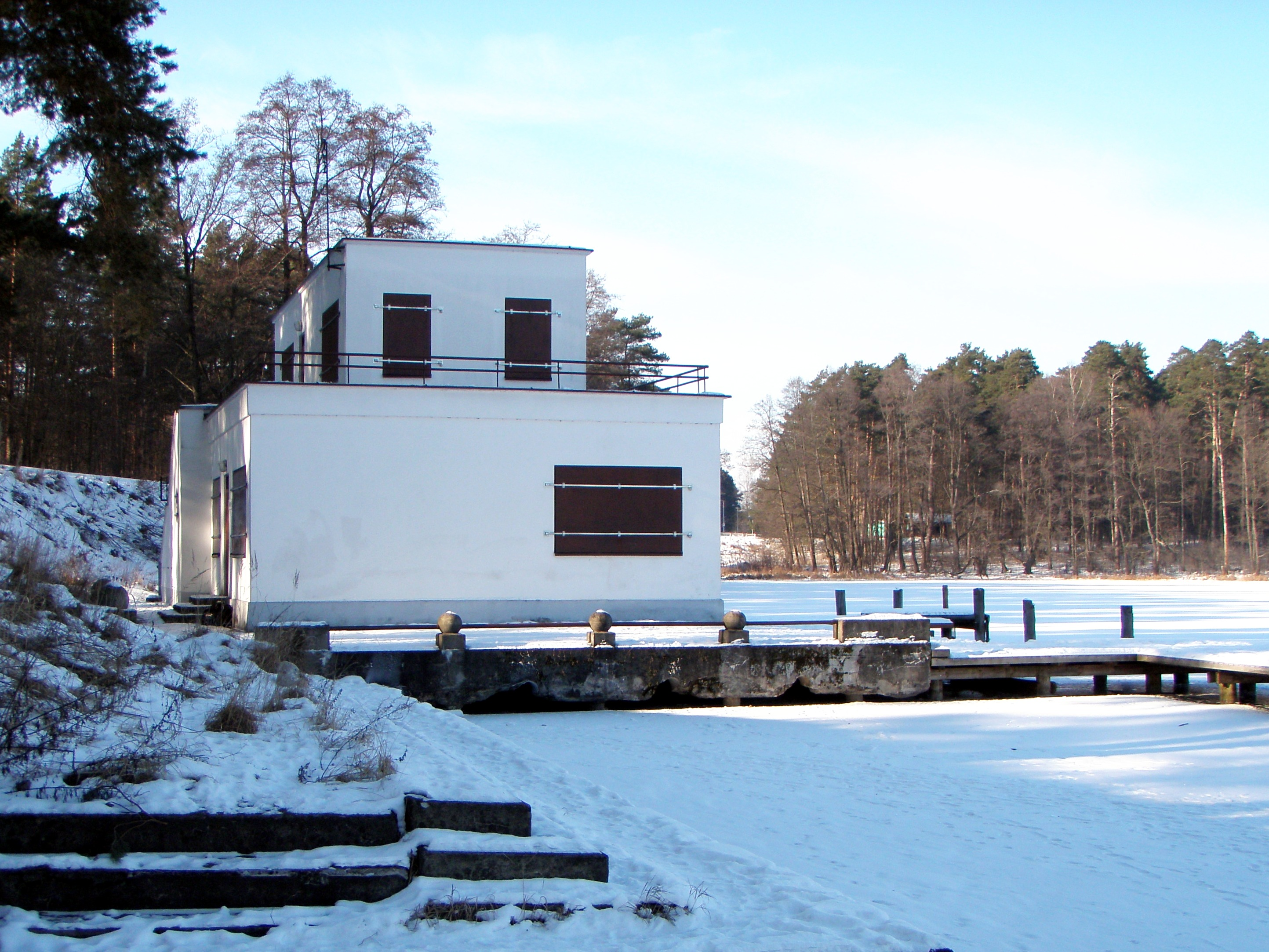 Harbor near Officer Yacht Club in Augustów (Poland).